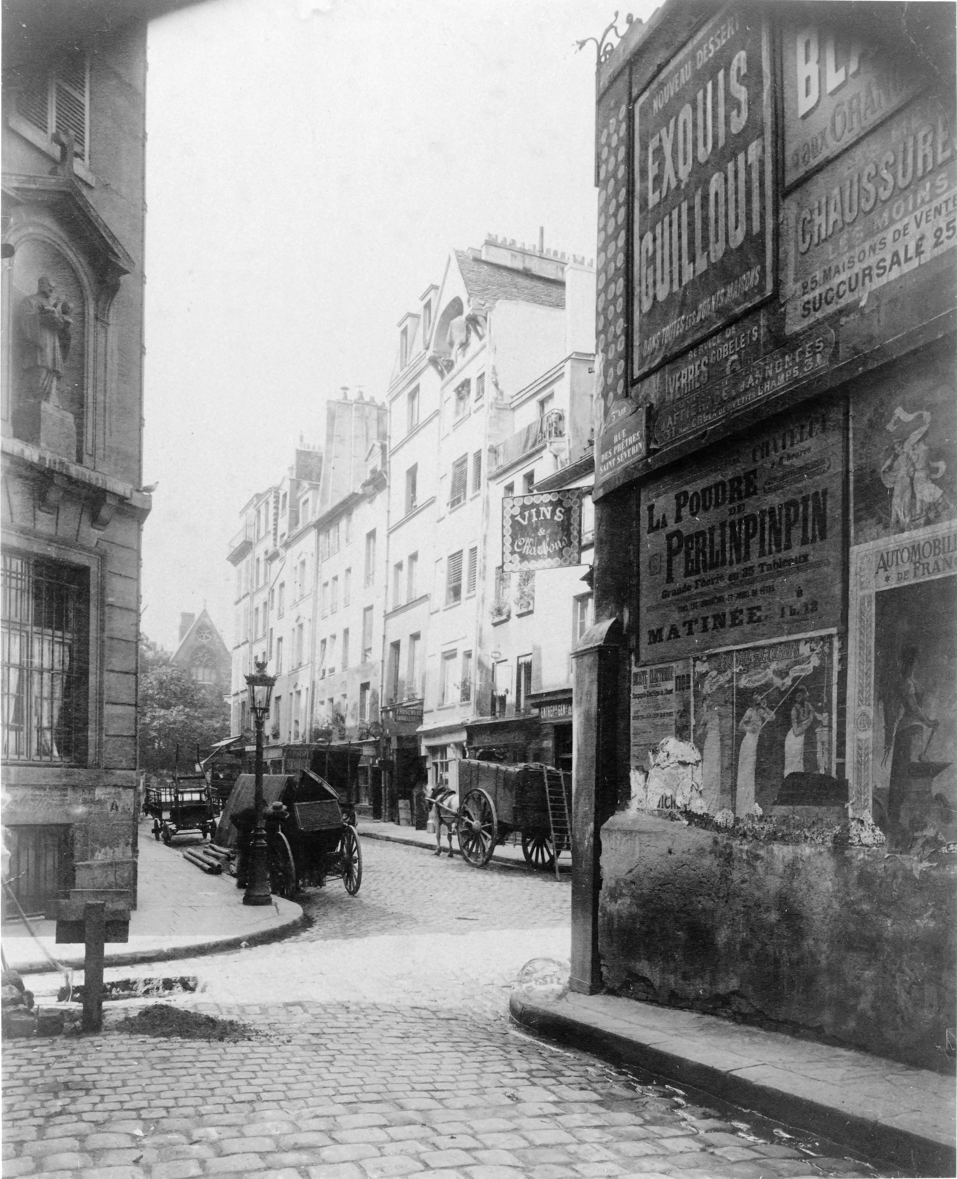 View of rue Boutebrie in Paris by Eugène Atget in 1899. Note the advertissement for the Perlinpinpin powder (in french : poudre de Perlinpinpin)